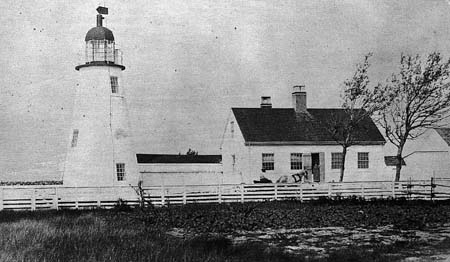 Ned Point Lighthouse, circa 1860, taken by the US Coast Guard.